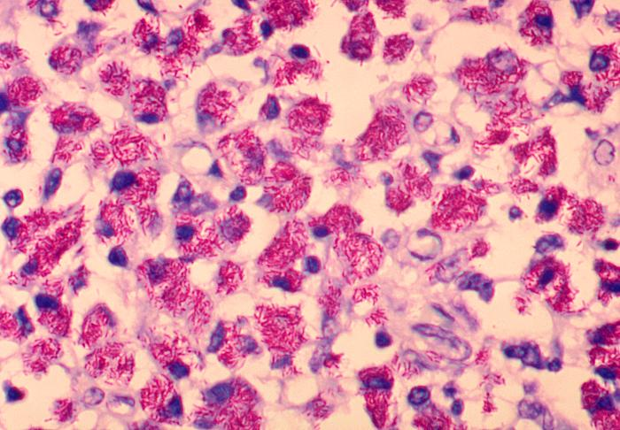 ID#: 965 Mycobacterium avium-intracellulare infection of lymph node in patient with AIDS. Ziehl-Neelsen stain. Histopathology of lymph node shows tremendous numbers of acid-fast bacilli within plump histiocytes.